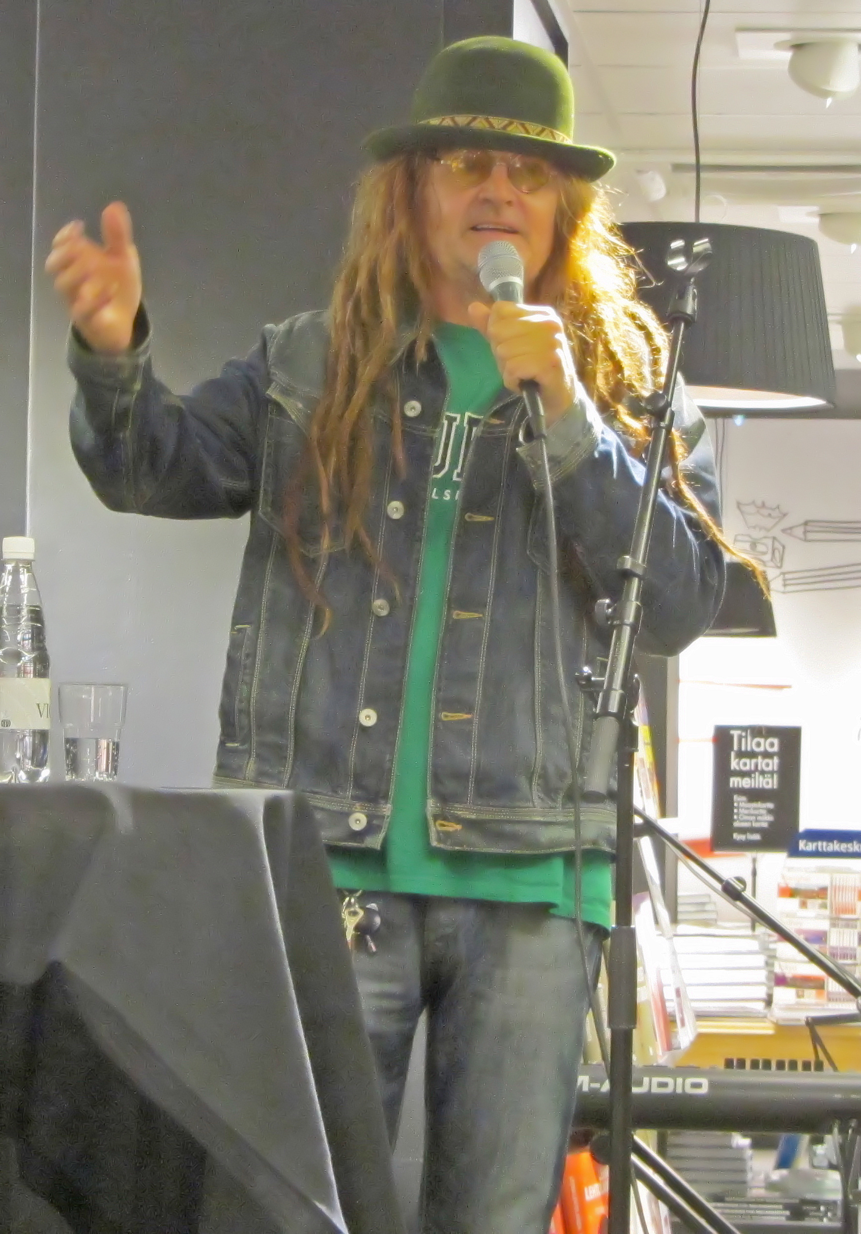 Finnish rock musician Pelle Miljoona on the Night of The Arts in Helsinki 2012